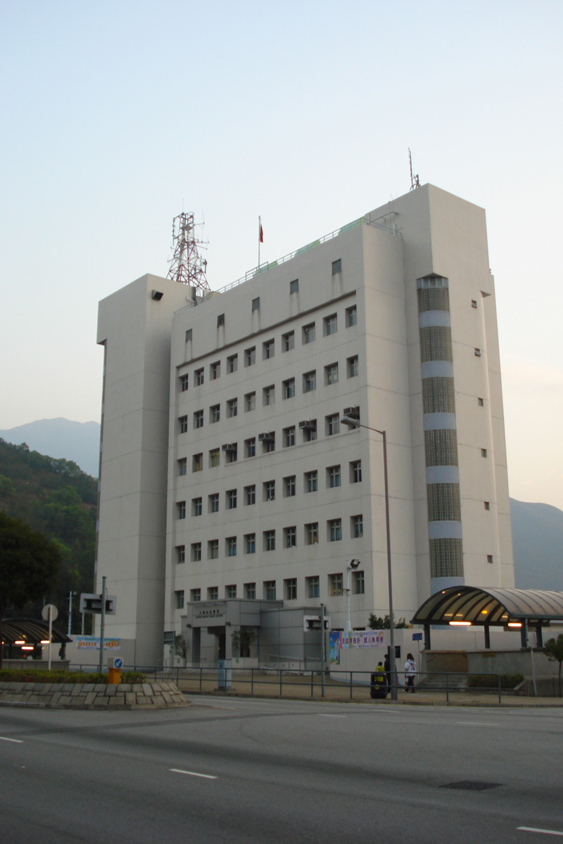 North Lautau Police Station